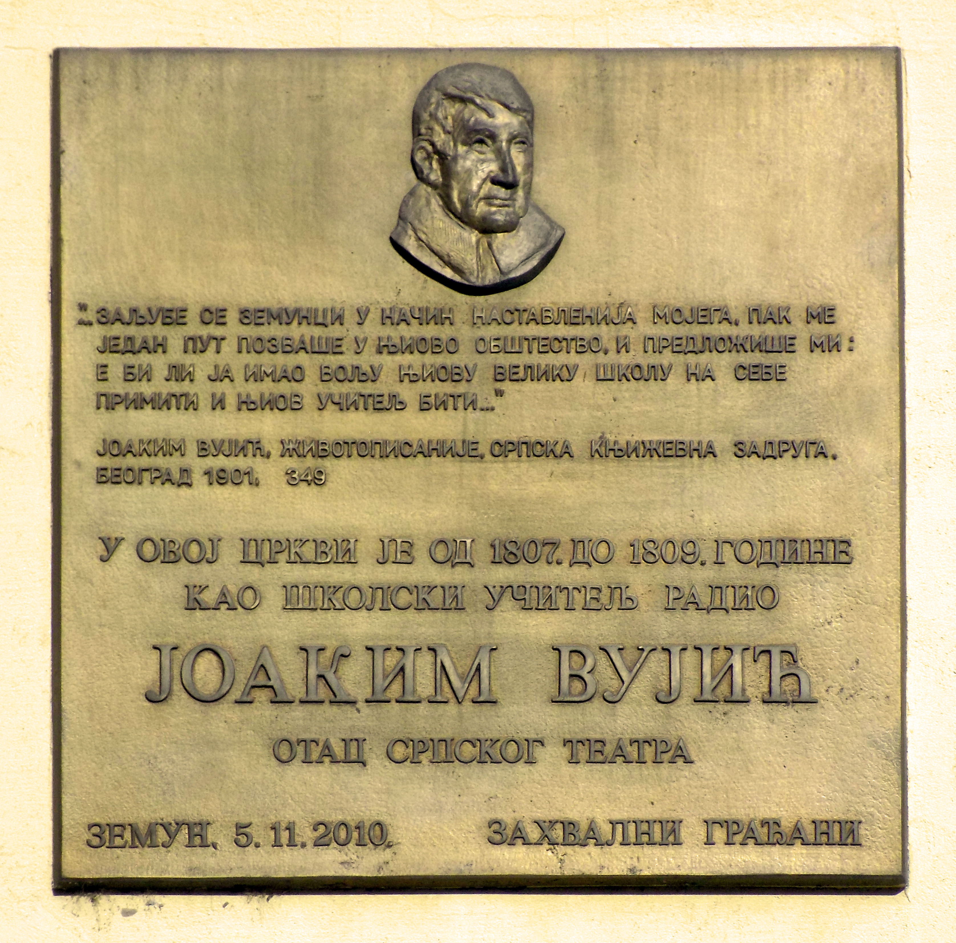 Memorial plaque dedicated to Joakim Vujic on the wall of the Parish Church of St. Nicholas church in Zemun